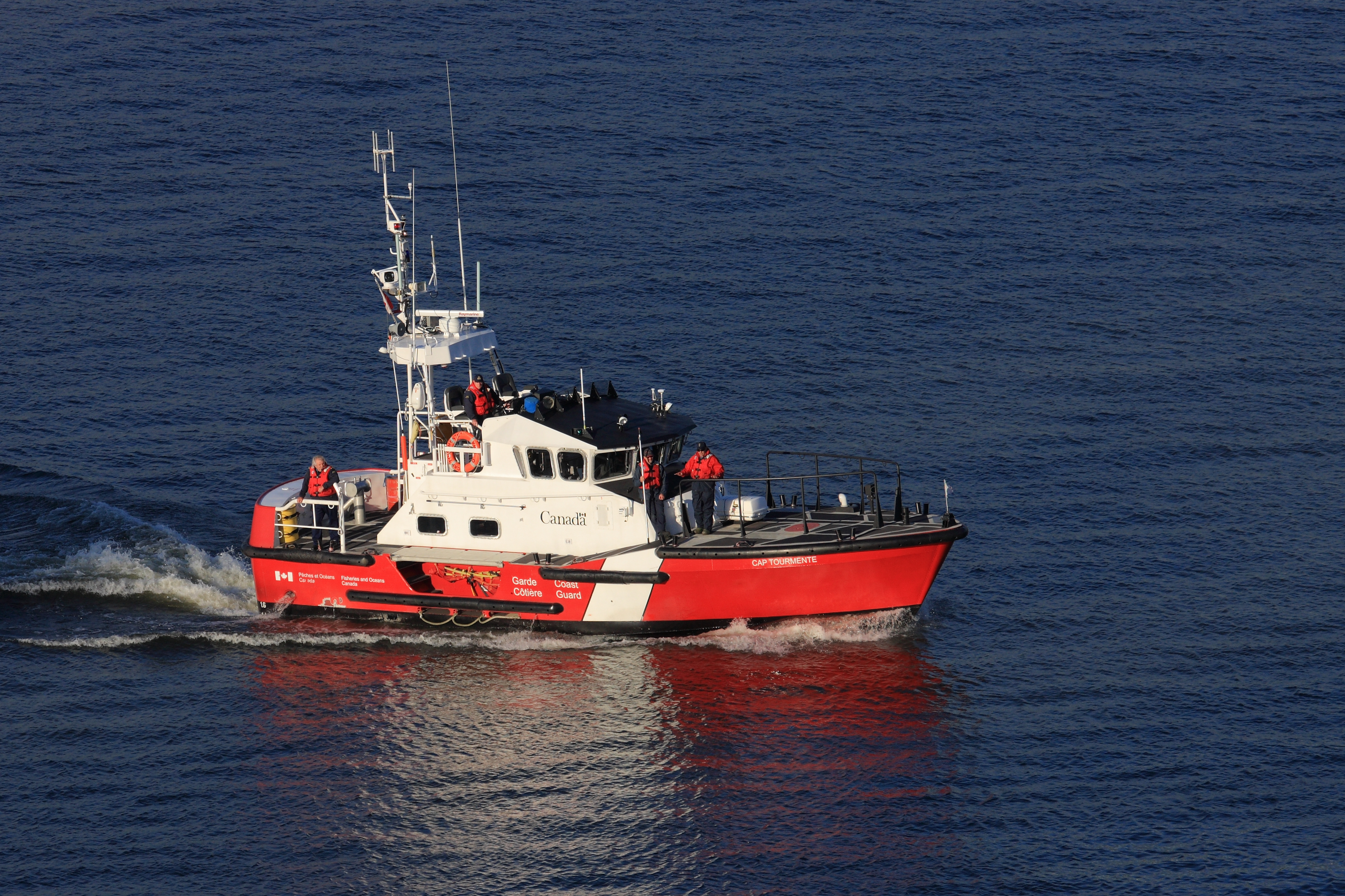 The CCGS Cap Tourmente of the Canadian Coast Guard on the Saint Lawrence River between Quebec City and Lévis, Quebec, Canada